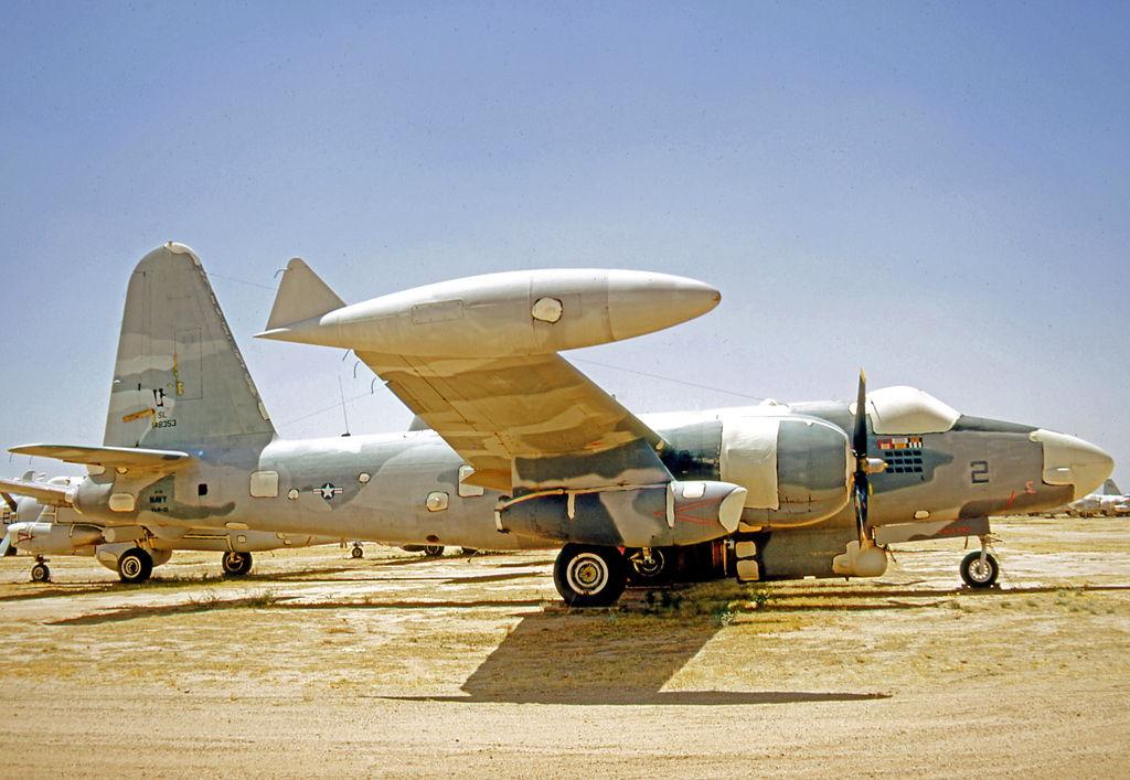 Lockheed AP-2H (P-2) Neptune of VAH-21 Squadron in 1971